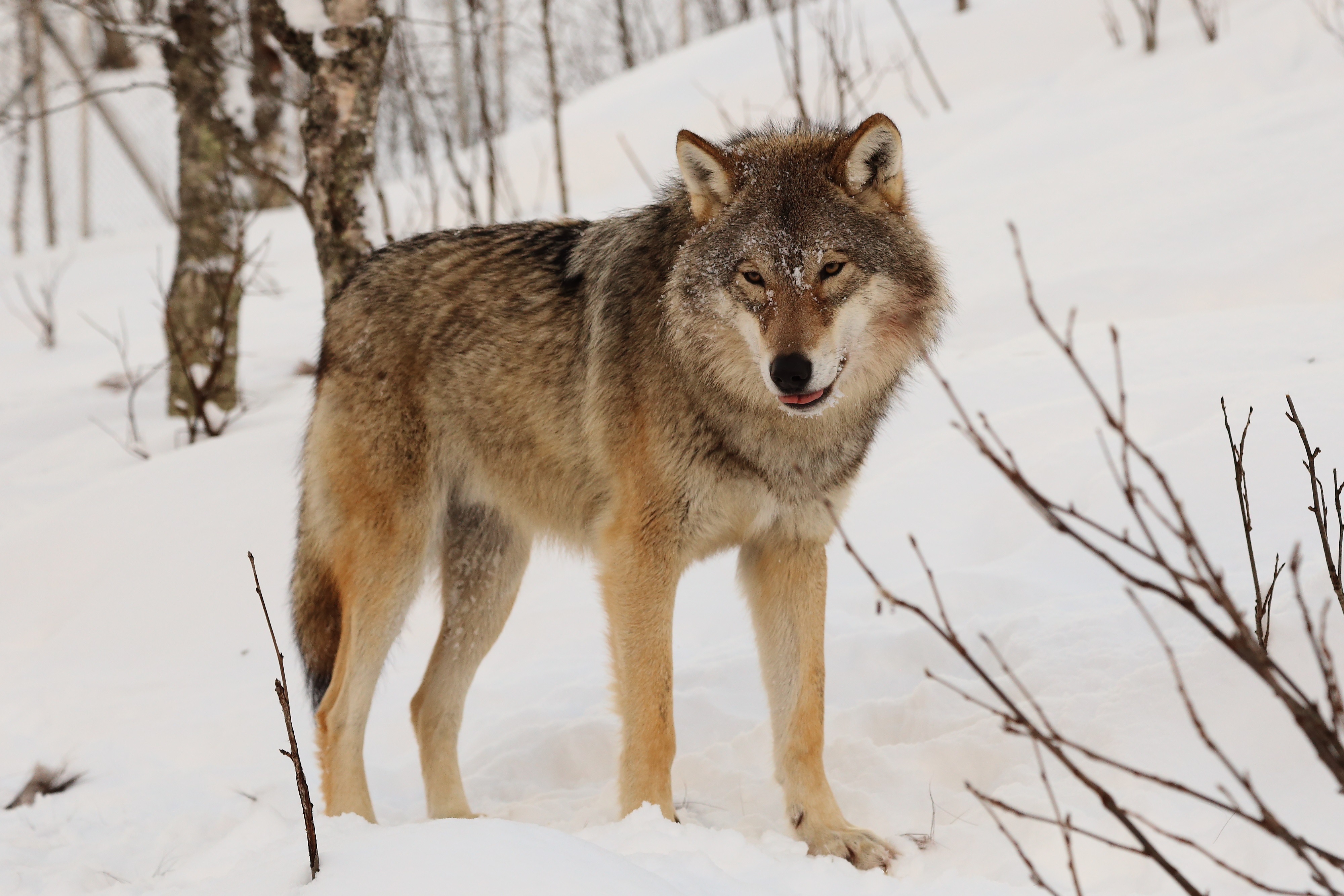 Eurasian wolf at Polar Zoo in Bardu, Norway